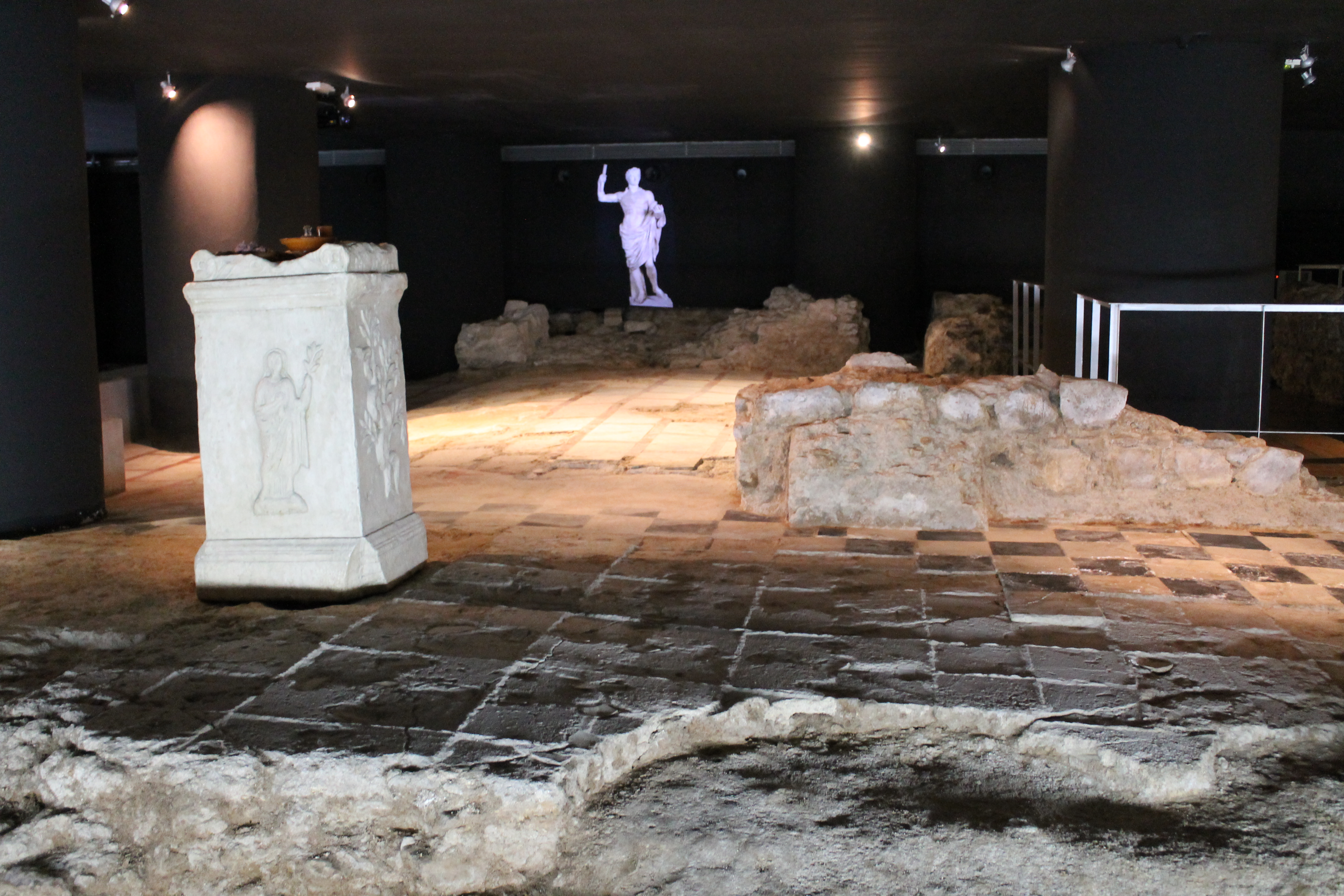 Polyurethane replica of the Altar of Salus from Cartagena, exposed at the Temple of Augustus in the same city. The original piece is preserved in the Archaeology Museum of Catalonia in Barcelona.